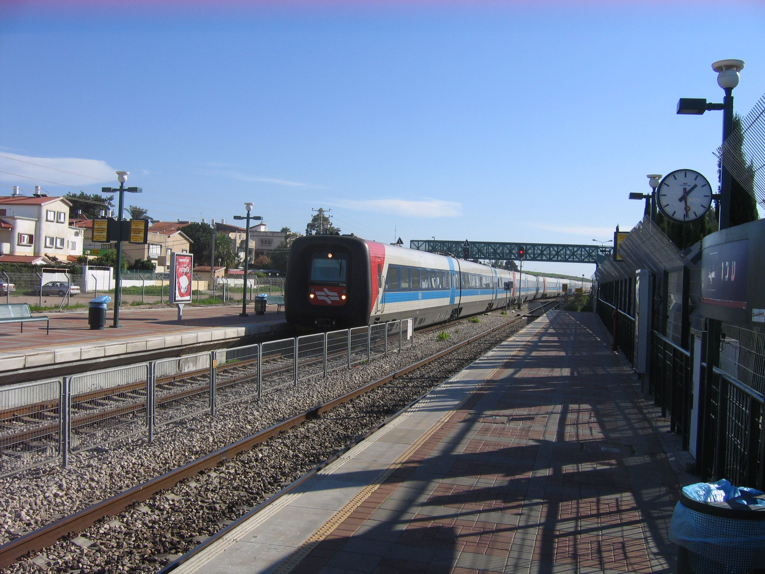 Akko rly station